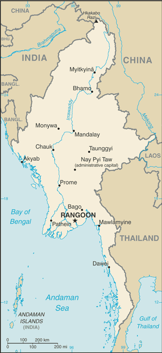 Burma (Myanmar) map from CIA World Factbook